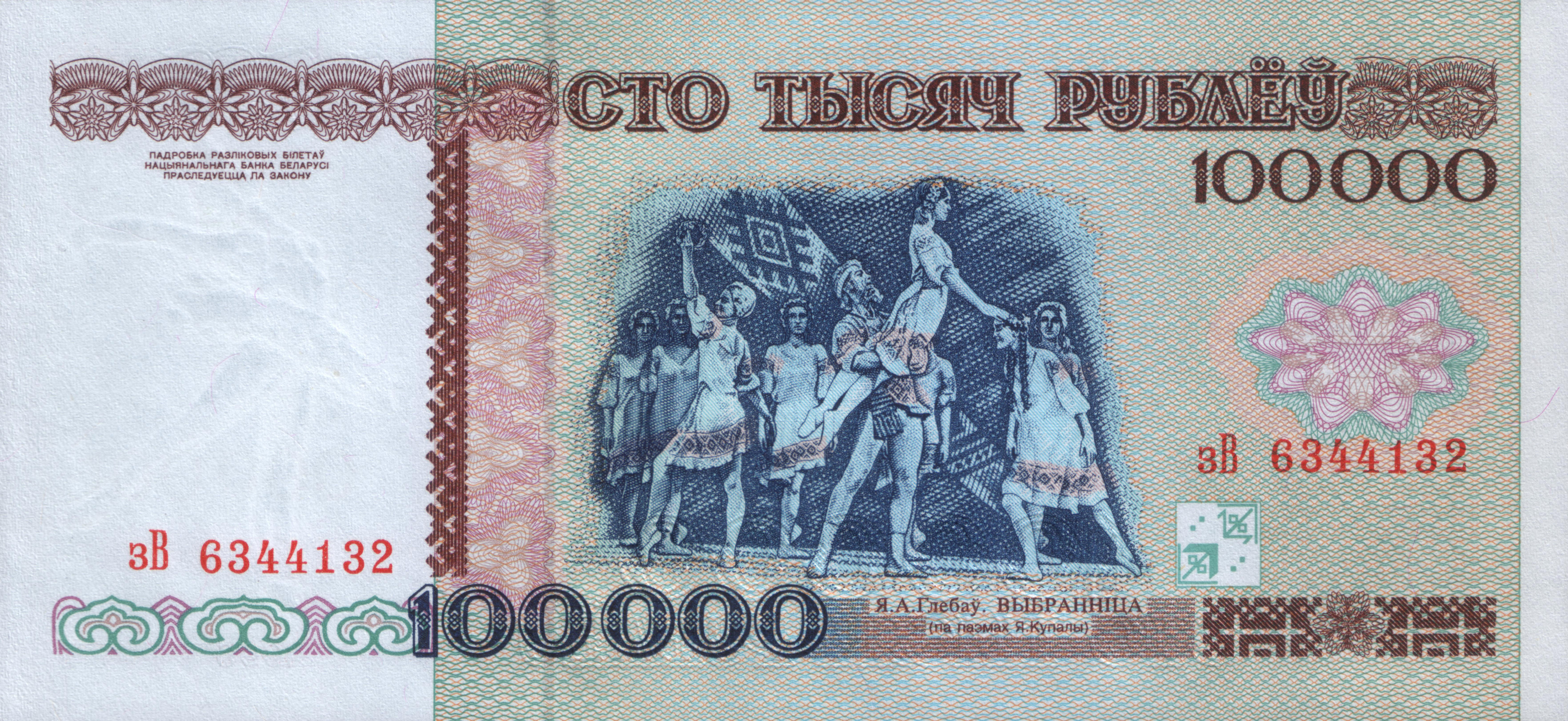 100 000 roubles of Belarus (1996)